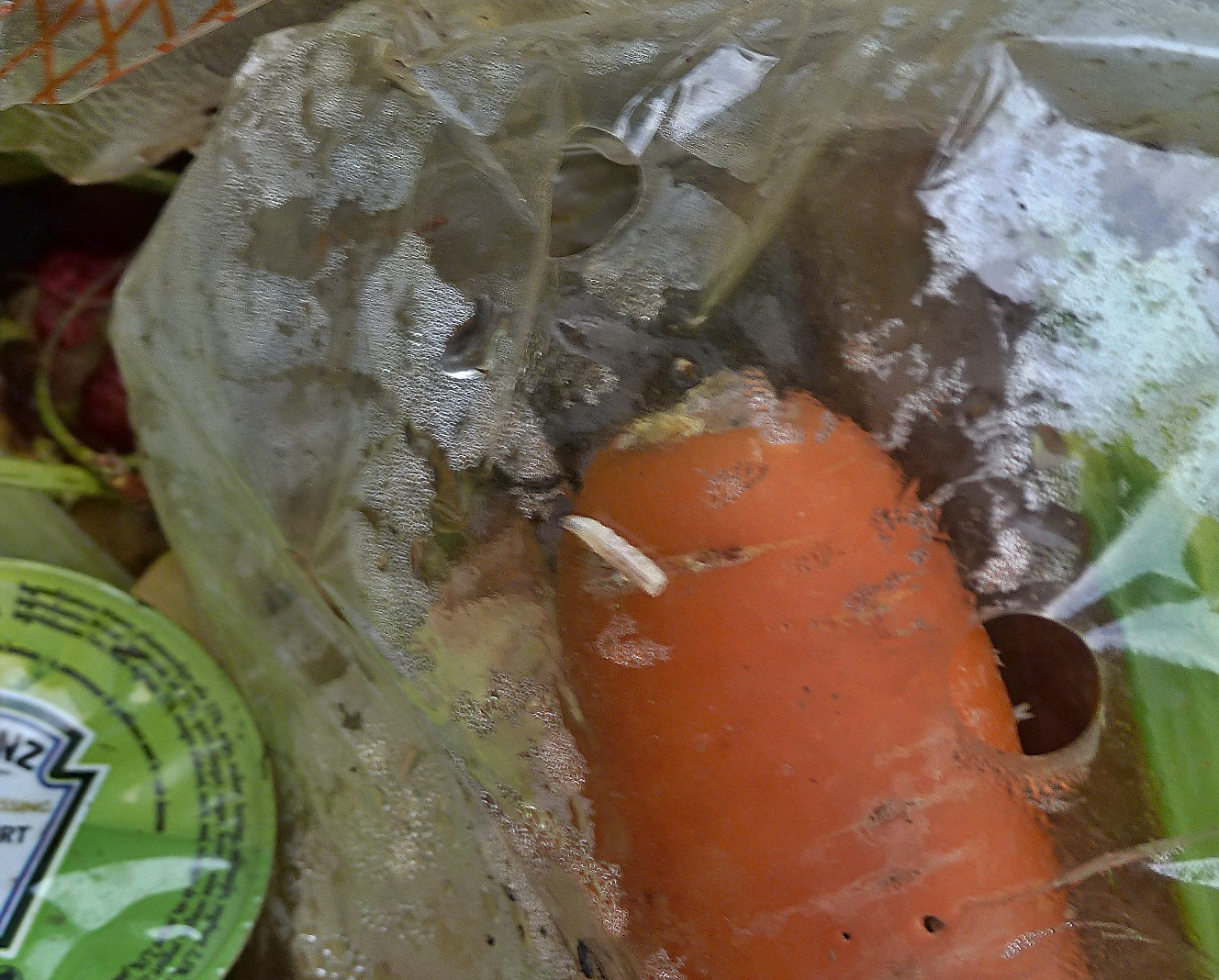 Not only humans come for the wasted food in supermarket dumpsters... Especially in the warmth of the summer they are sometimes crawling of maggots when vegetables and fruits are waiting for days for waste collection.